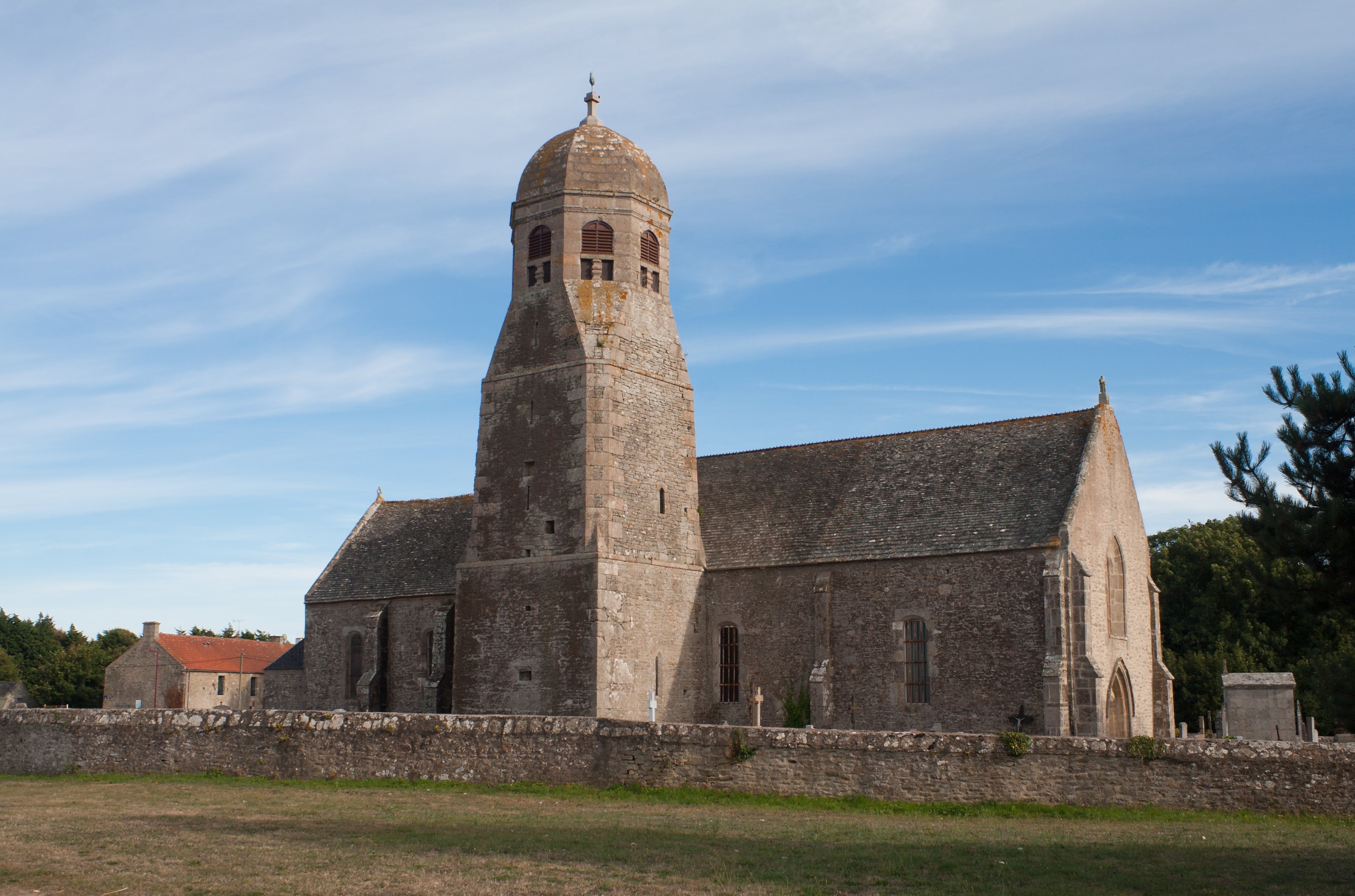 North side of the church in the evening sun.